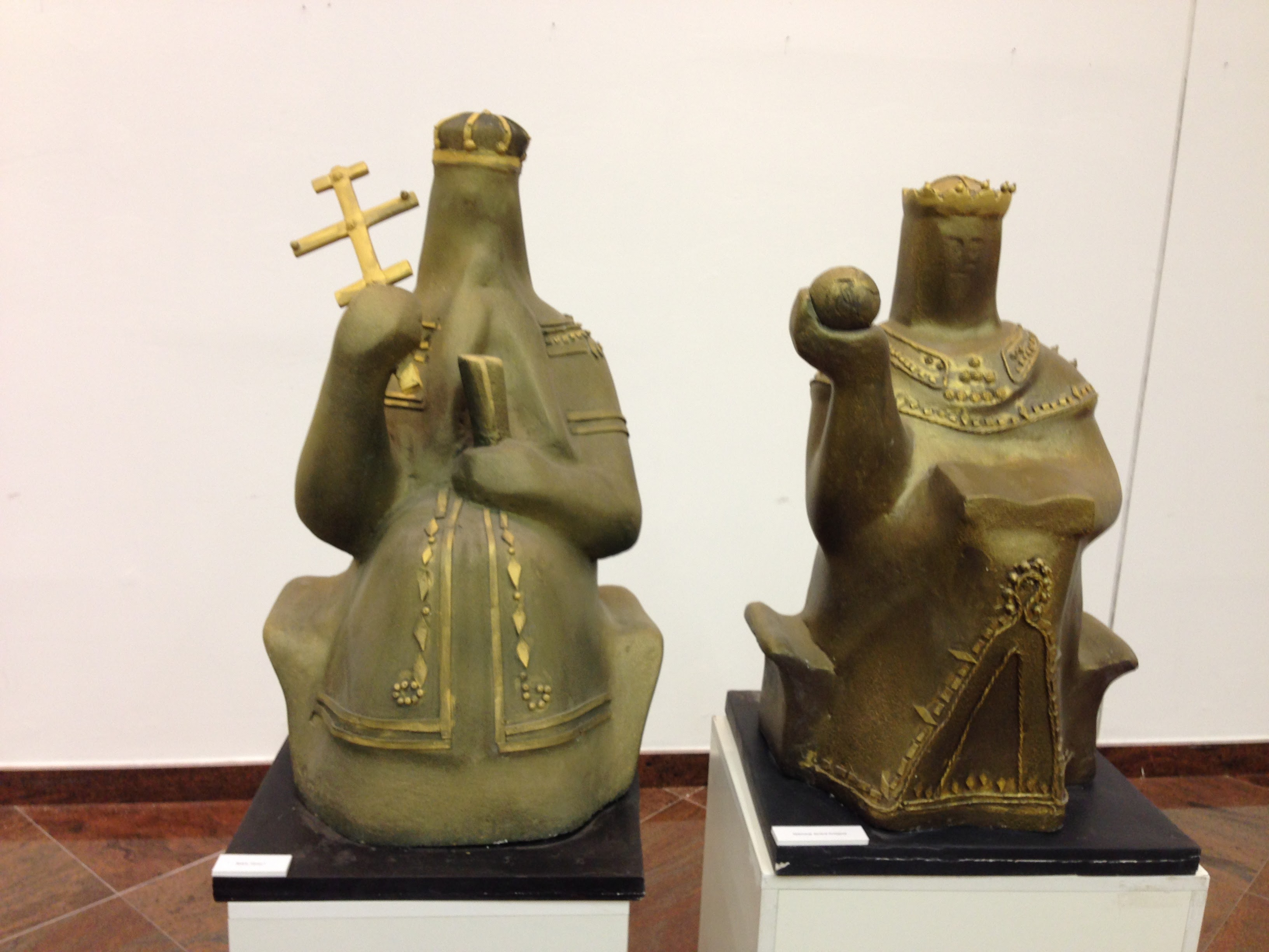 King Uroš I (76x42x48) and Queen Jelena Anžujska (70x43x39). Solo exhibition of the Gallery of the Home Officer in Niš, Serbia, 2017.10.03, Vasilije Perevalov (1937). Sculptor from Niš, Serbia.